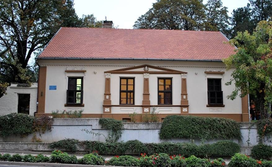 House of Đorđe Vojnović in Inđija